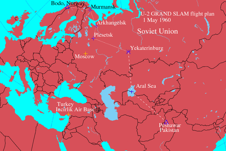 Francis Gary Powers' U-2 "GRAND SLAM" flight plan on 1. May 1960 according to "Text of Indictment on Spy Pilot Powers"